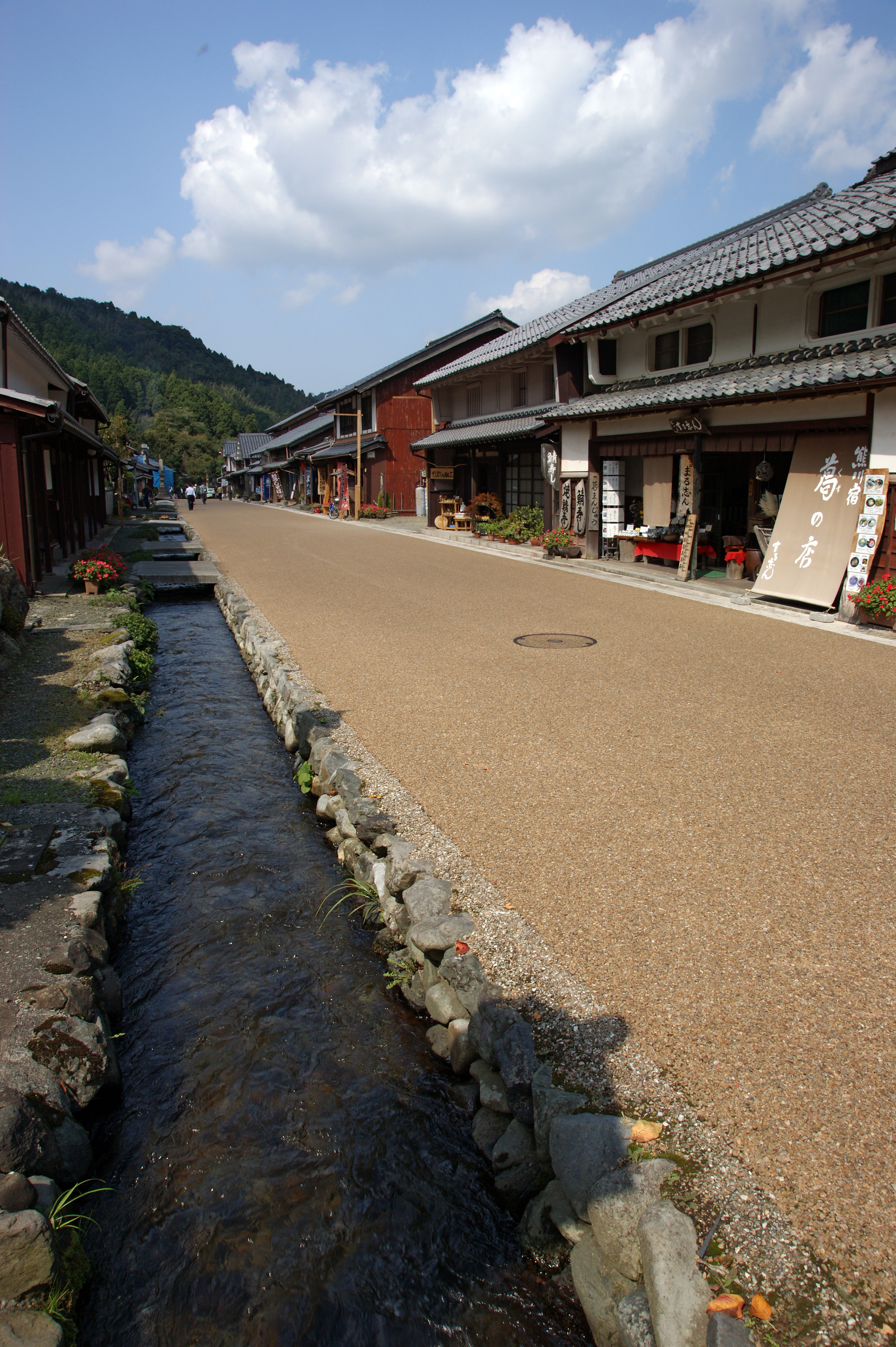 Kumagawa-juku, Wakasa, Fukui prefecture, Japan